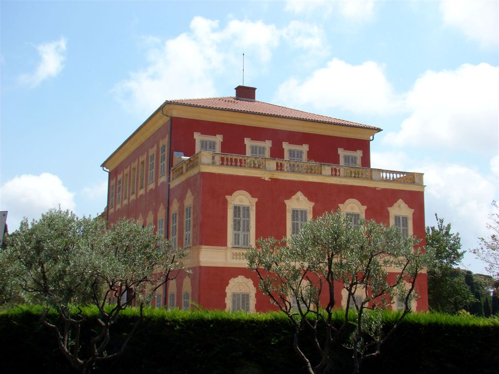 The museum dedicated to the artist Henri Matisse, in Nice. The surrounds to all those windows are painted on i.e. 'trompe d'oeil' ('trick of the eye')